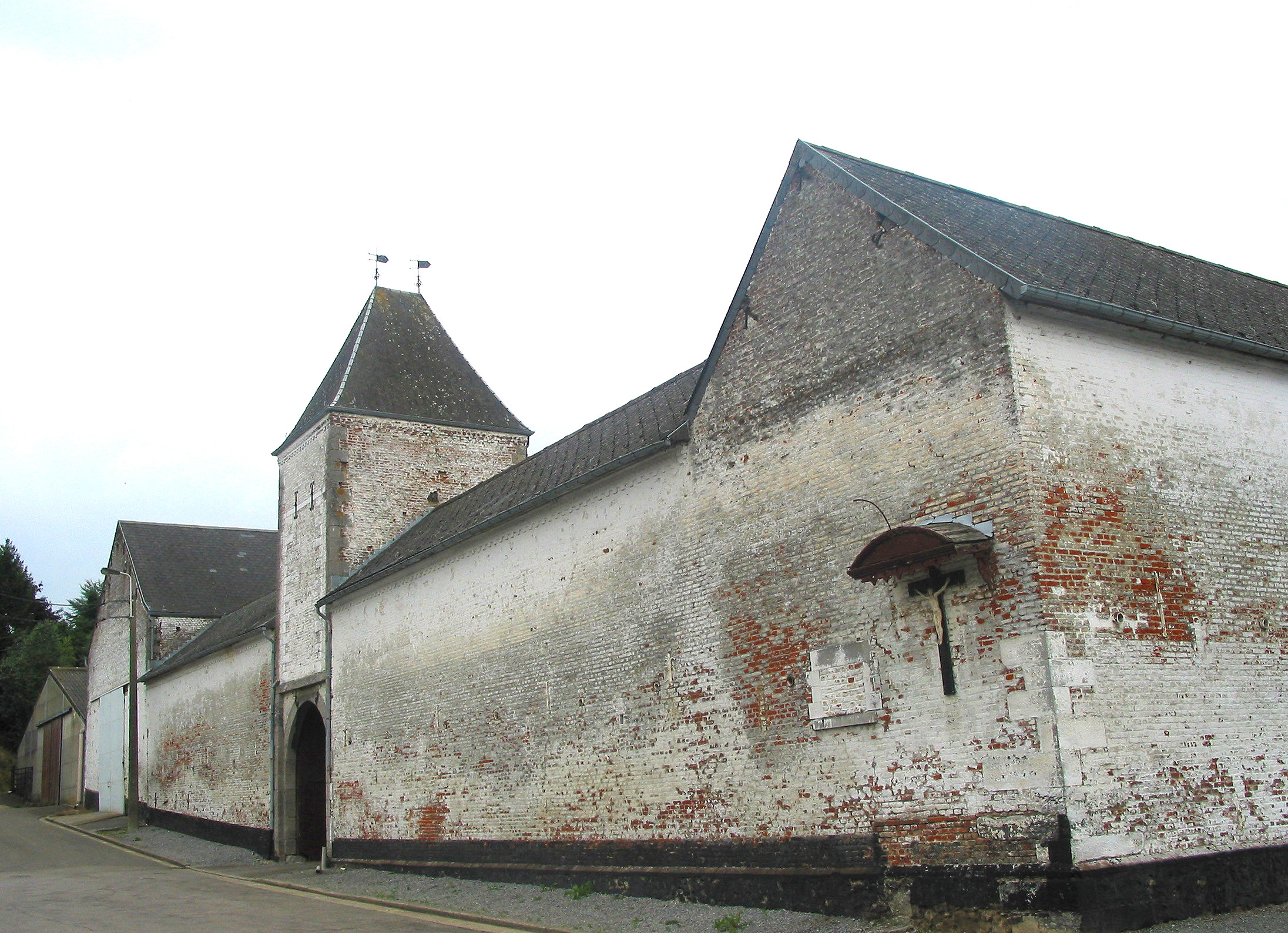 Wasseiges (Belgium), Hesbaye farm.